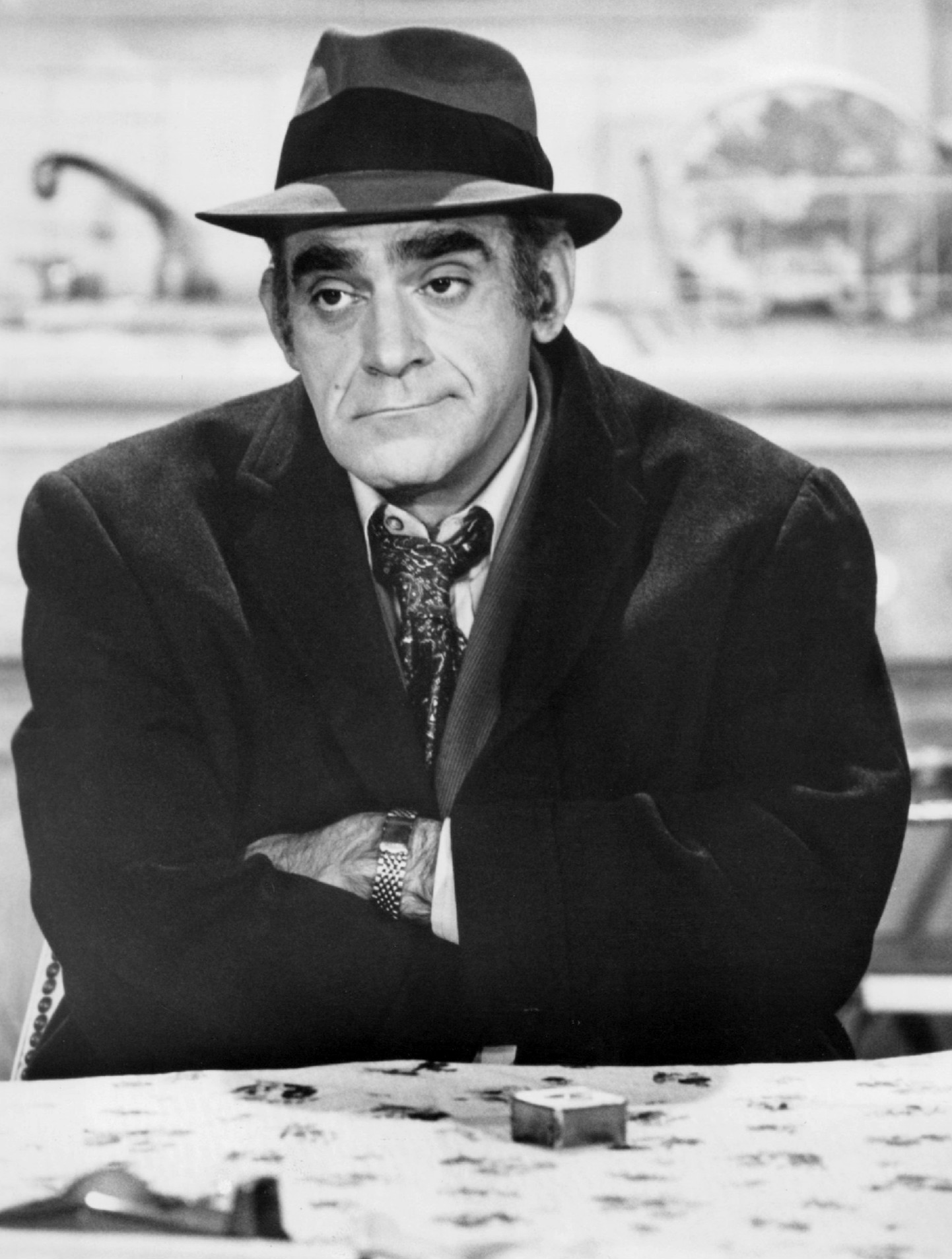 Photo of Abe Vigoda as Phil Fish from the television program Fish.